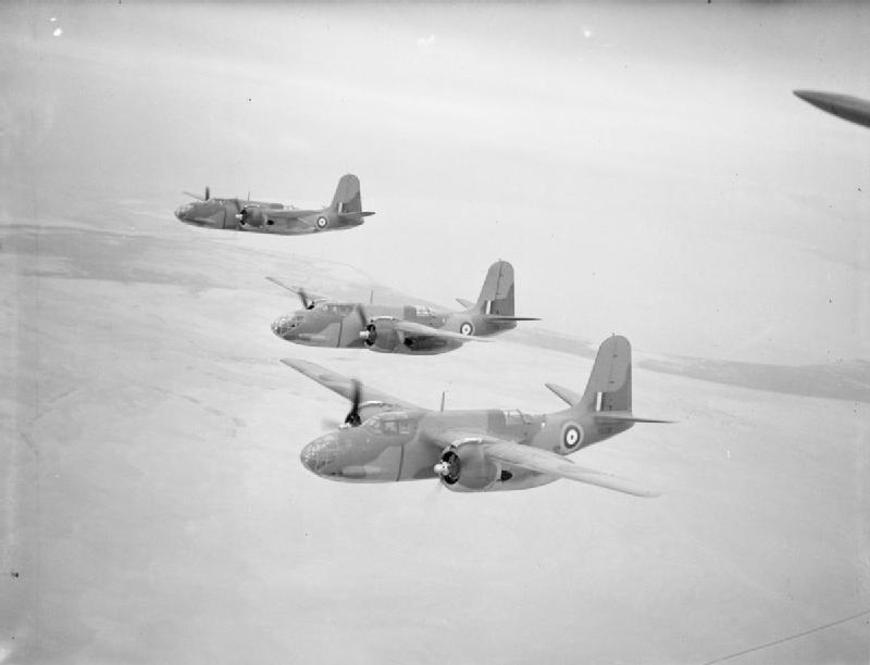 Royal Air Force- Operations in the Middle East and North Africa, 1939-1943. Three Douglas Boston Mark IIIs, Z2218, Z2225 and Z2237, flying in formation near the Great Bitter Lake, Egypt, on an air test or delivery flight from Kasfareet. These aircraft served with No. 24 Squadron SAAF, so may be flying to join the unit in the Western Desert.